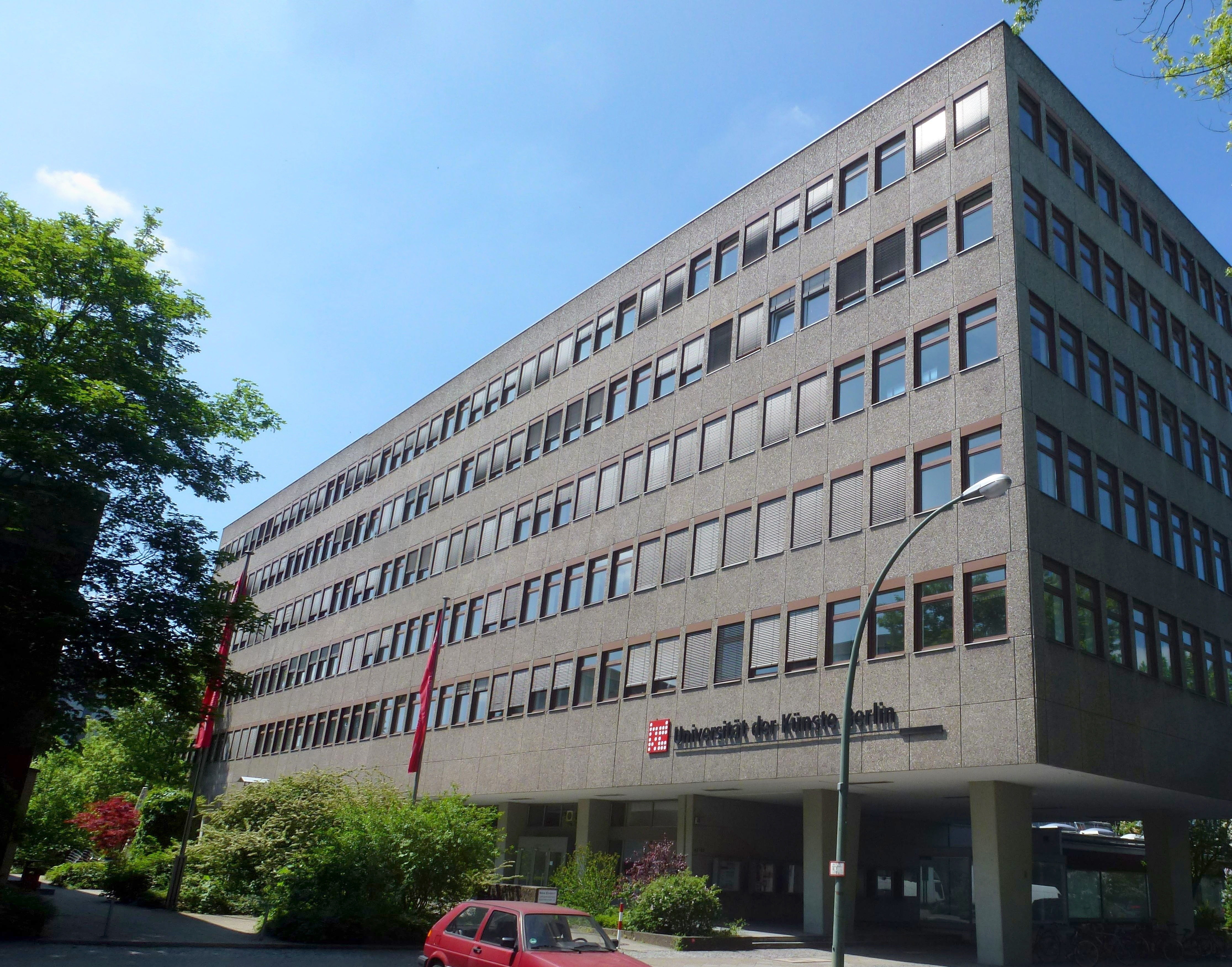 Berlin-Charlottenburg Einsteinufer UDK